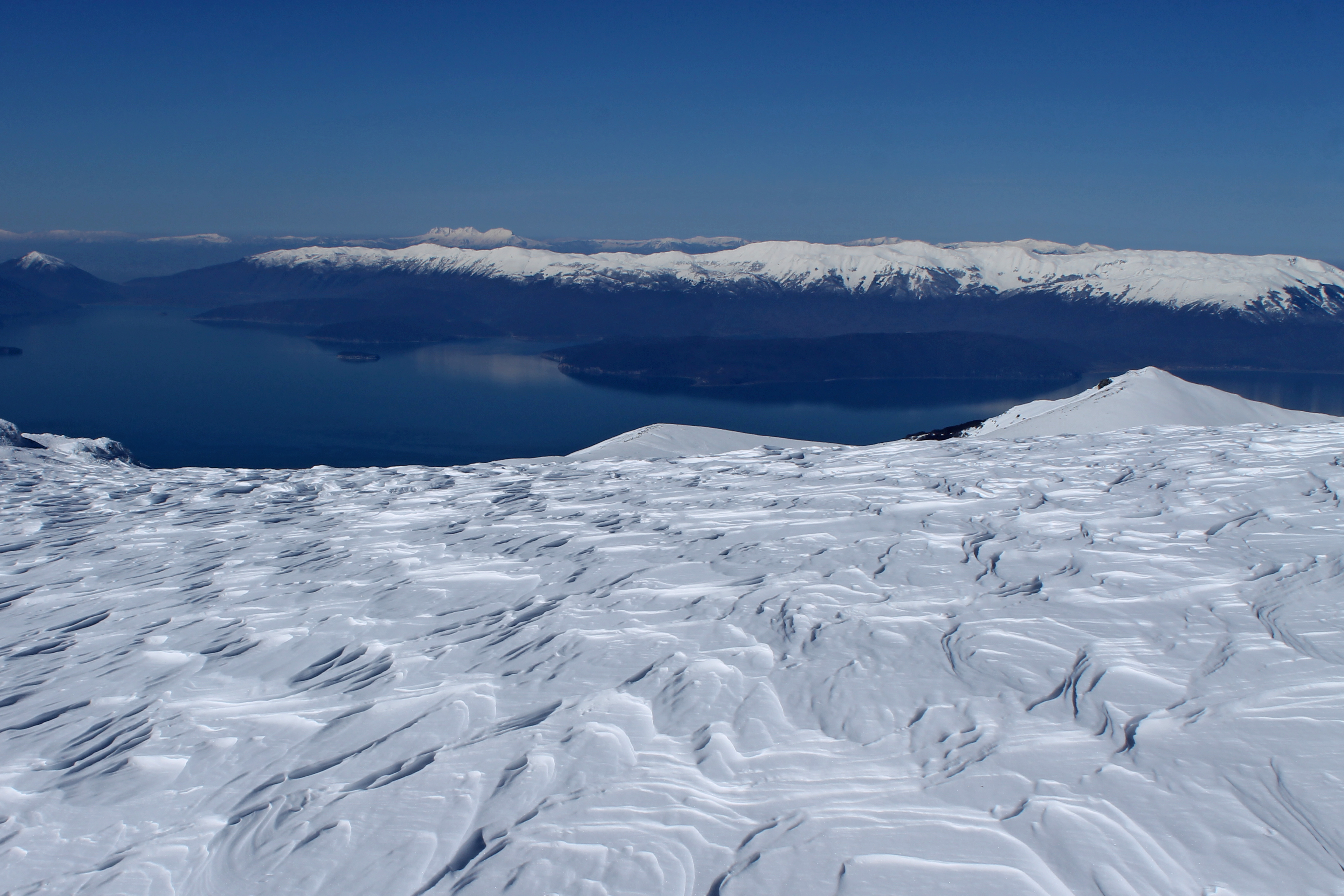 Winter above Prespa Lake - View from the Macedonian part over the Albanian part